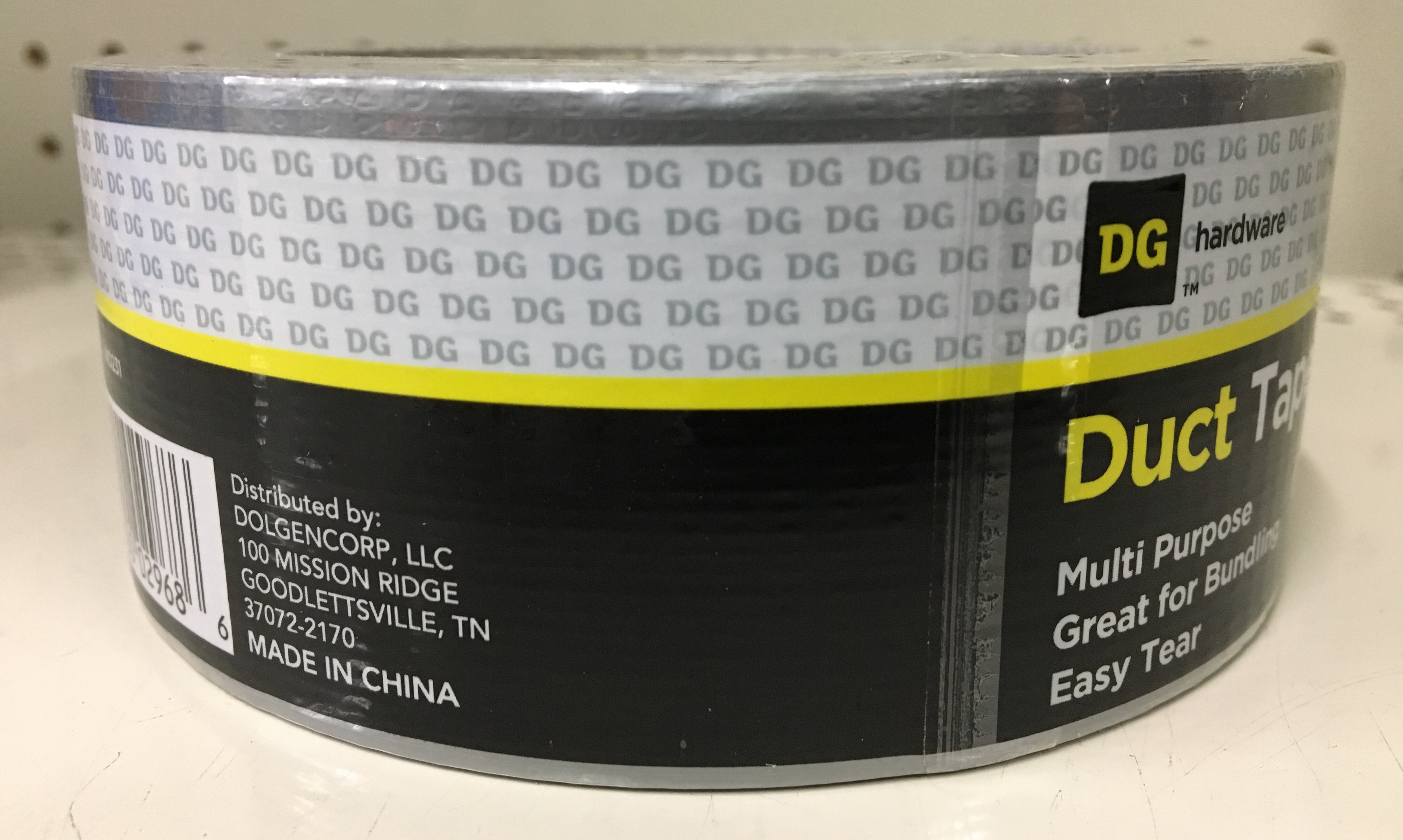 Dollar General product duct tape